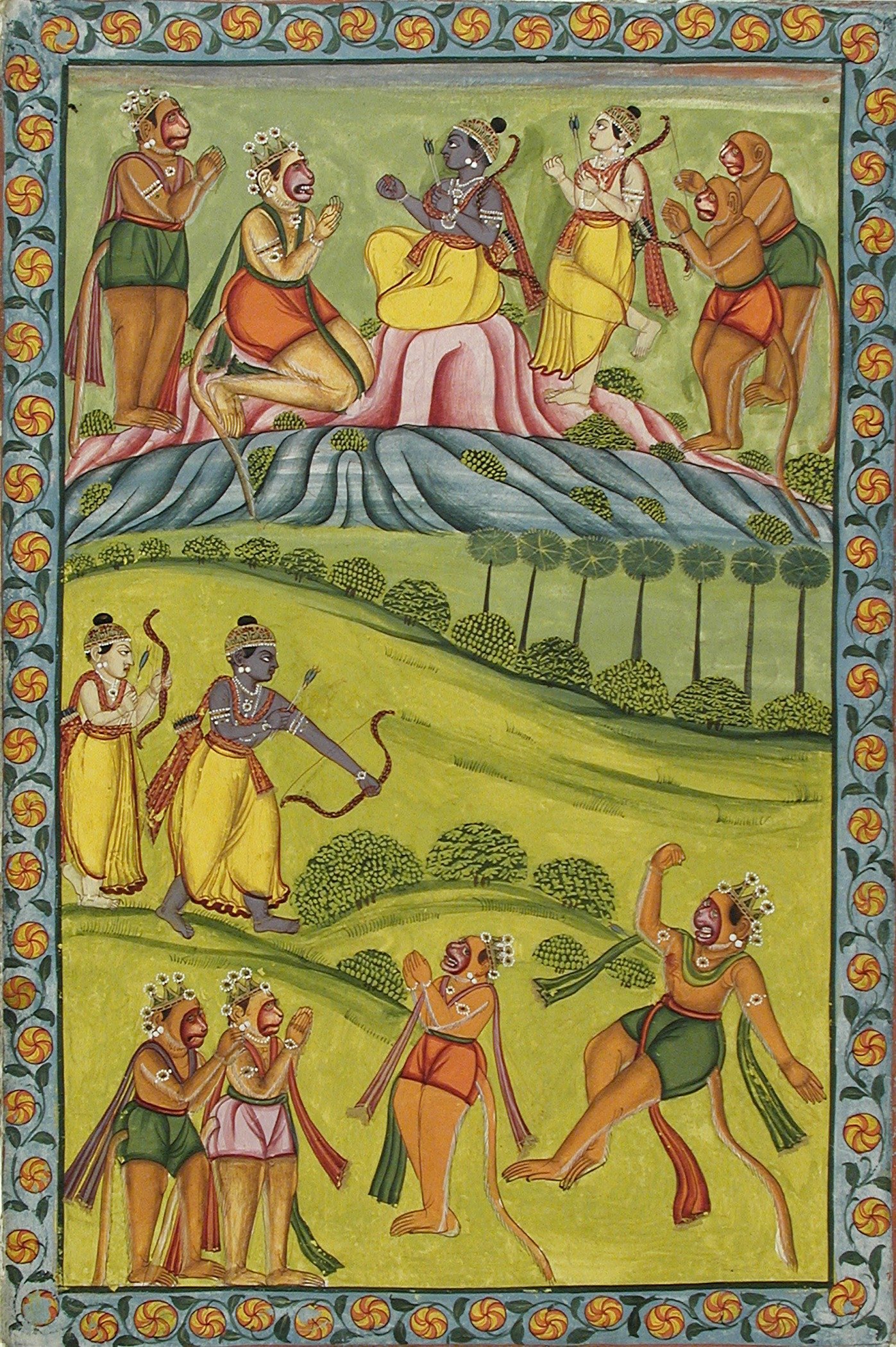 India, West Bengal, Murshidabad, circa 1770-1775 Drawings; watercolors Opaque watercolor and gold on paper Purchased with funds provided by Dorothy and Richard Sherwood (M.72.88.3) South and Southeast Asian Art